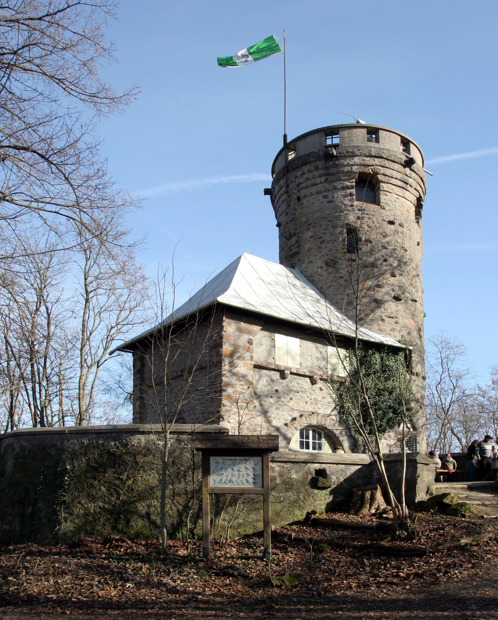 Bismarck tower at the top of the Hemsberg in Bensheim (Hesse, Germany)